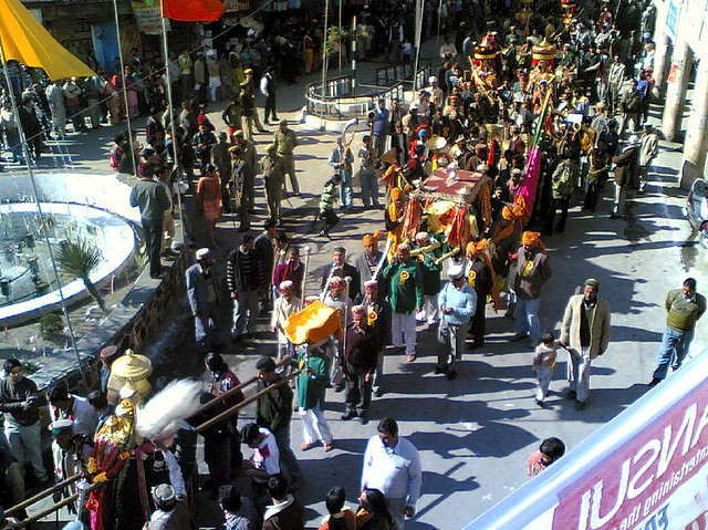 Shivratri 2007 jaleb Mandi